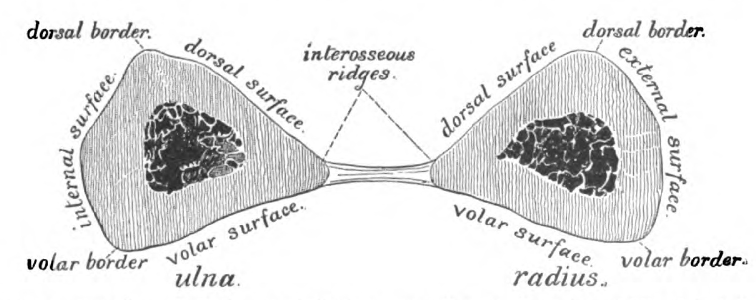 An anatomical illustration from Sobotta's Atlas and Text-book of Human Anatomy 1909